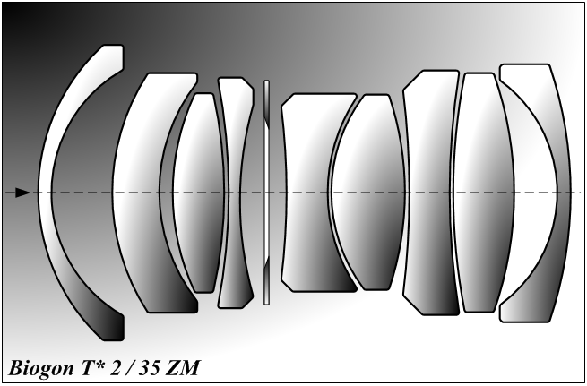 Biogon lens.